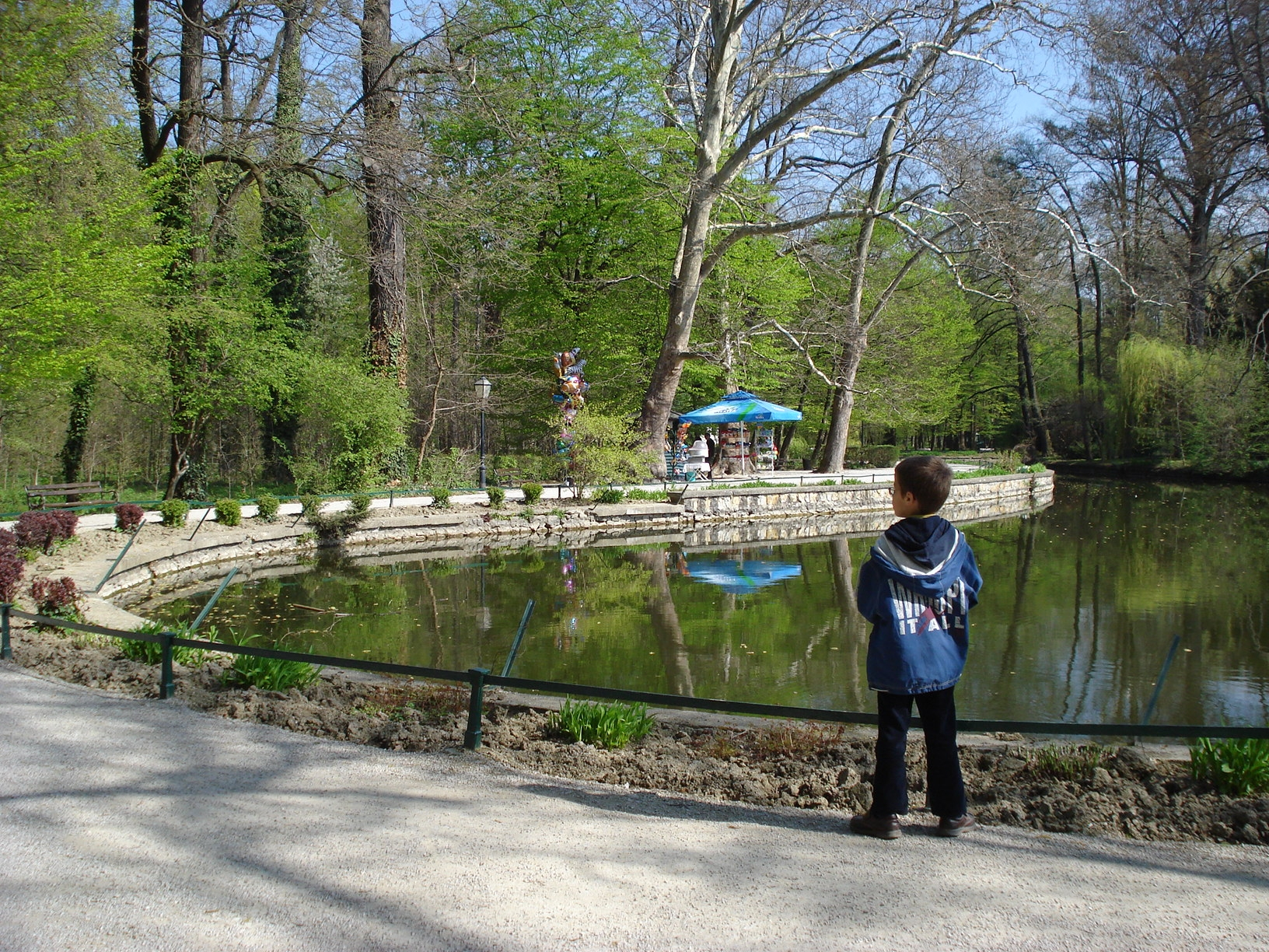 Maksimir City Park in Zagreb, Croatia - part of the first of five Maksimir lakes (April 2012)